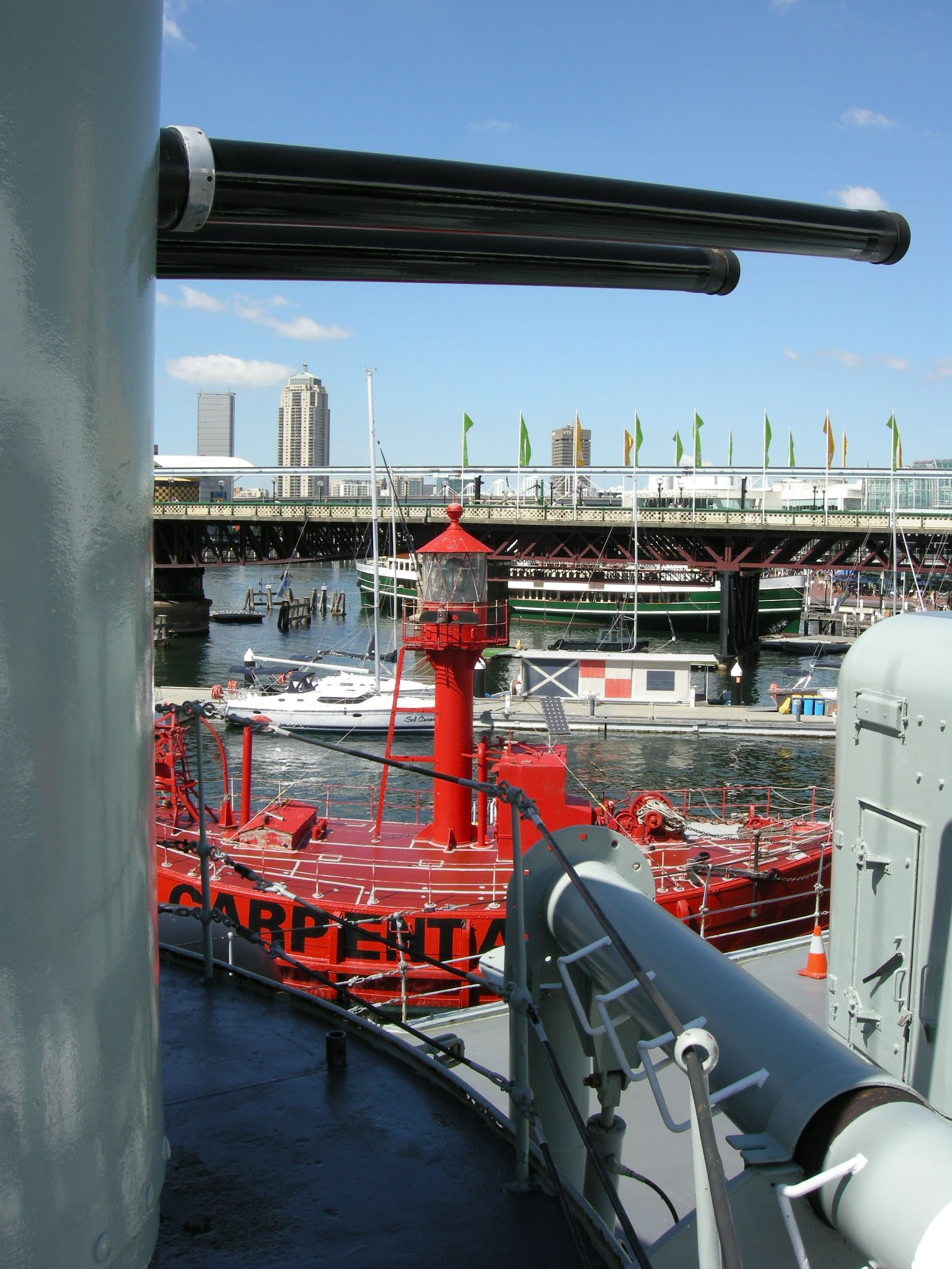 Looking out towards Pyrmont Bridge, framed by the turret and barrels of the twin 4.5-inch B-turret aboard HMAS '"Vampire